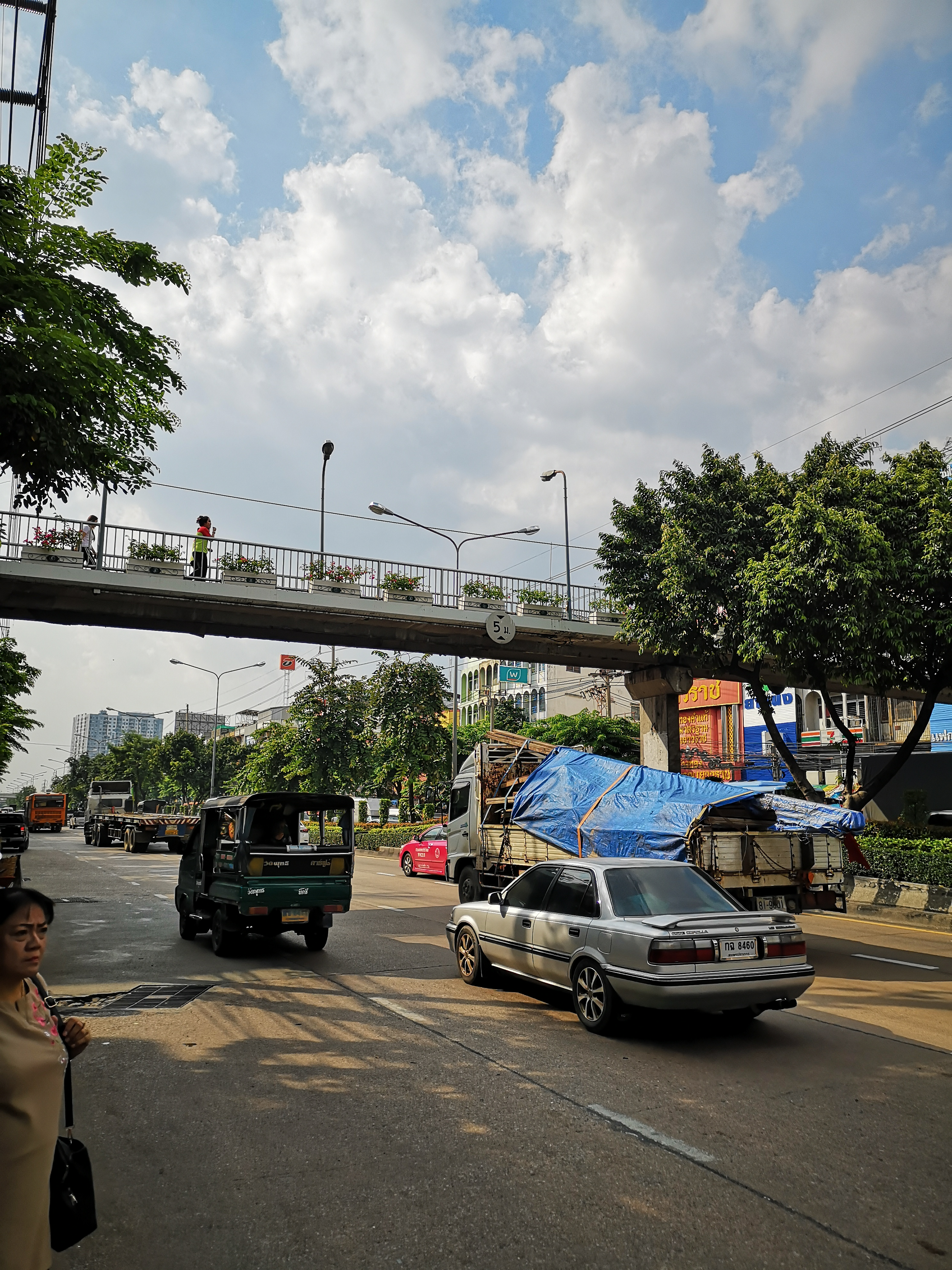 Suk Sawat road (Bang Prakok)